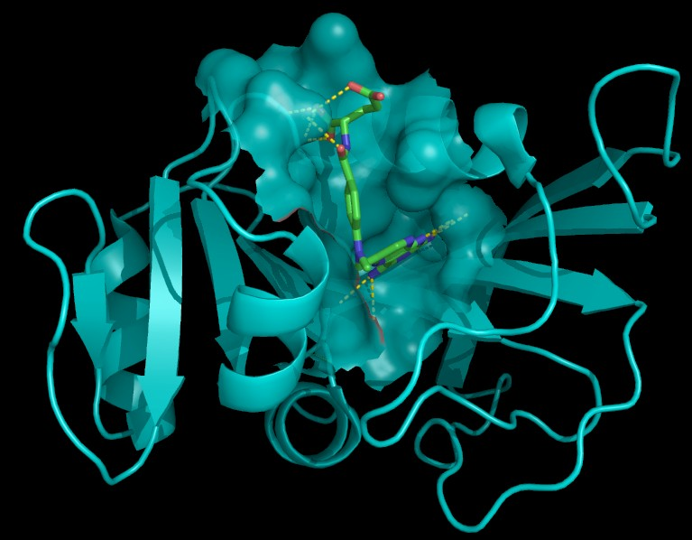 Structure of dihydrofolate reductase complexed to methotrexate. First structure of a drug-target complex : DA Mattews et al. (1977) Science